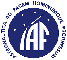 International Astronautical Federation logo